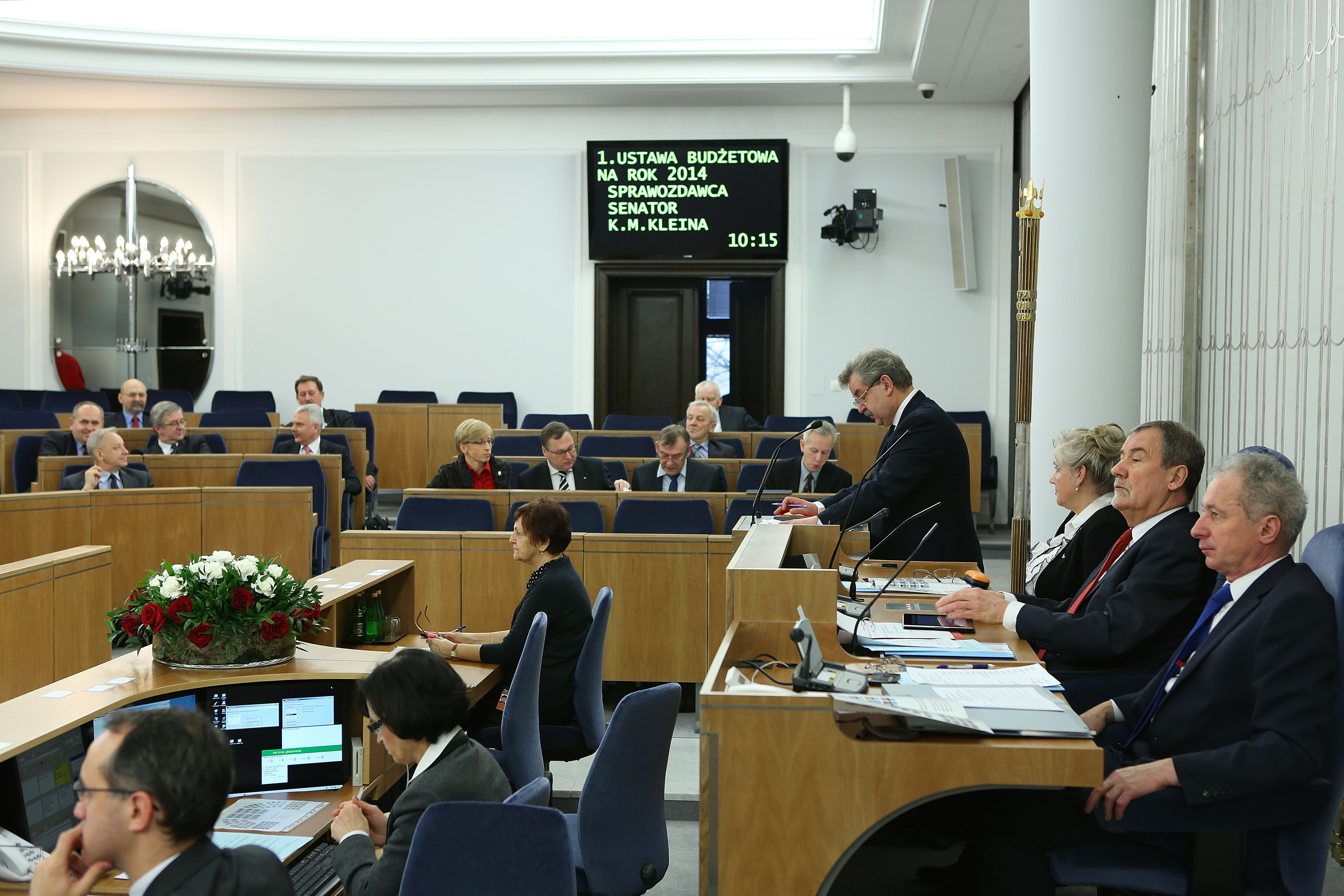 47th sitting of the Polish Senate